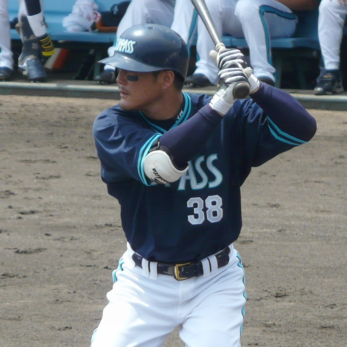 Koji-Hirashita